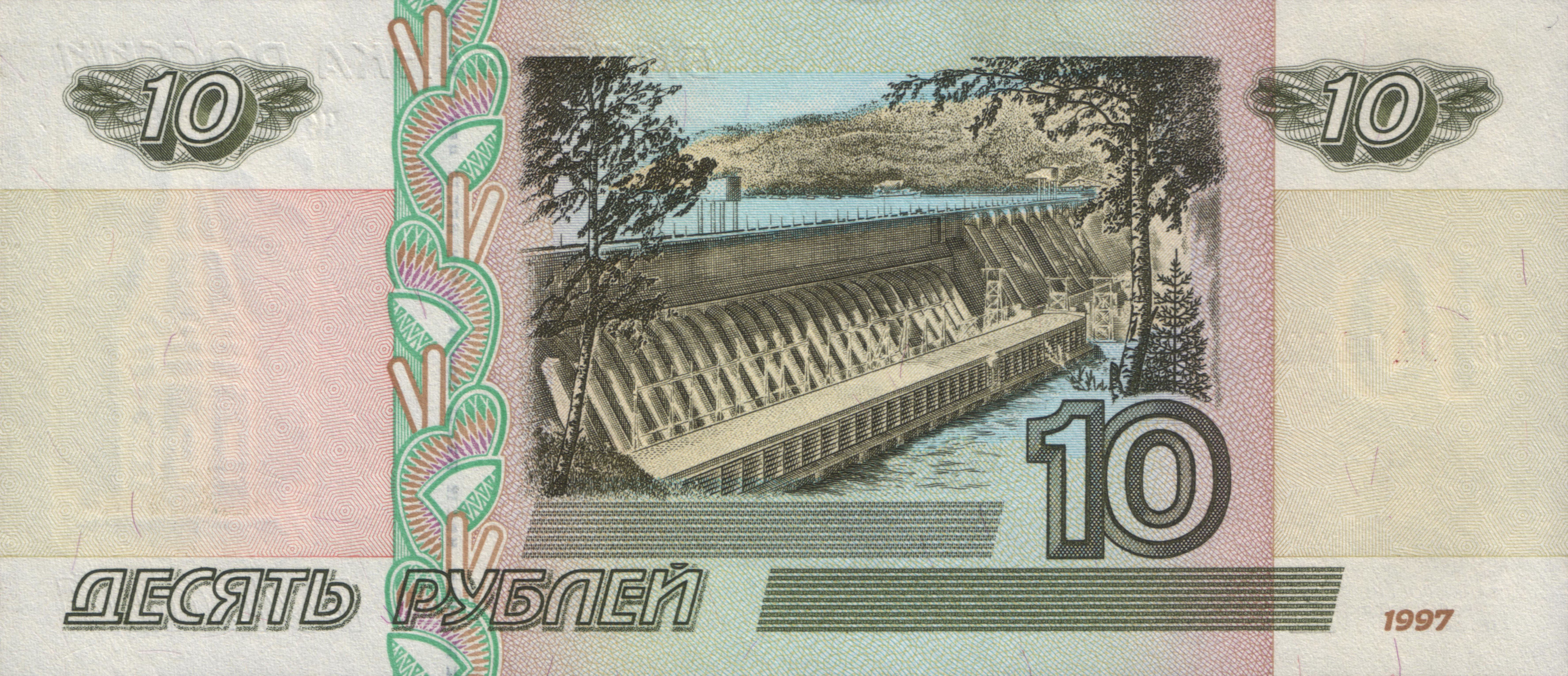 Russian banknote. 10 rubles. Version of 1997 year. Back